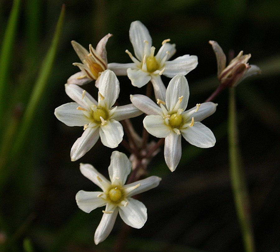 Sea Muilla (Muilla maritima), picture taken at Jepson Prairie in California.